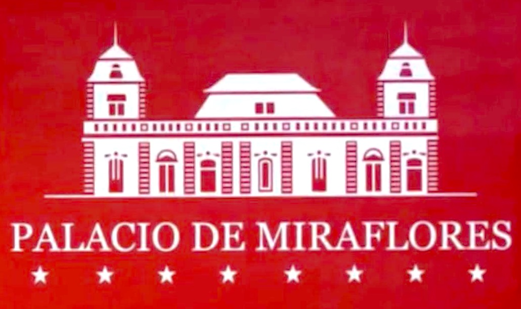 Logo of Miraflores Palace in Venezuela.